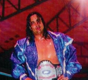 Professional wrestler Ray González standing inside a World Wrestling Council (WWC) ring during his reigh as Puerto Rico Heavyweight Champion.